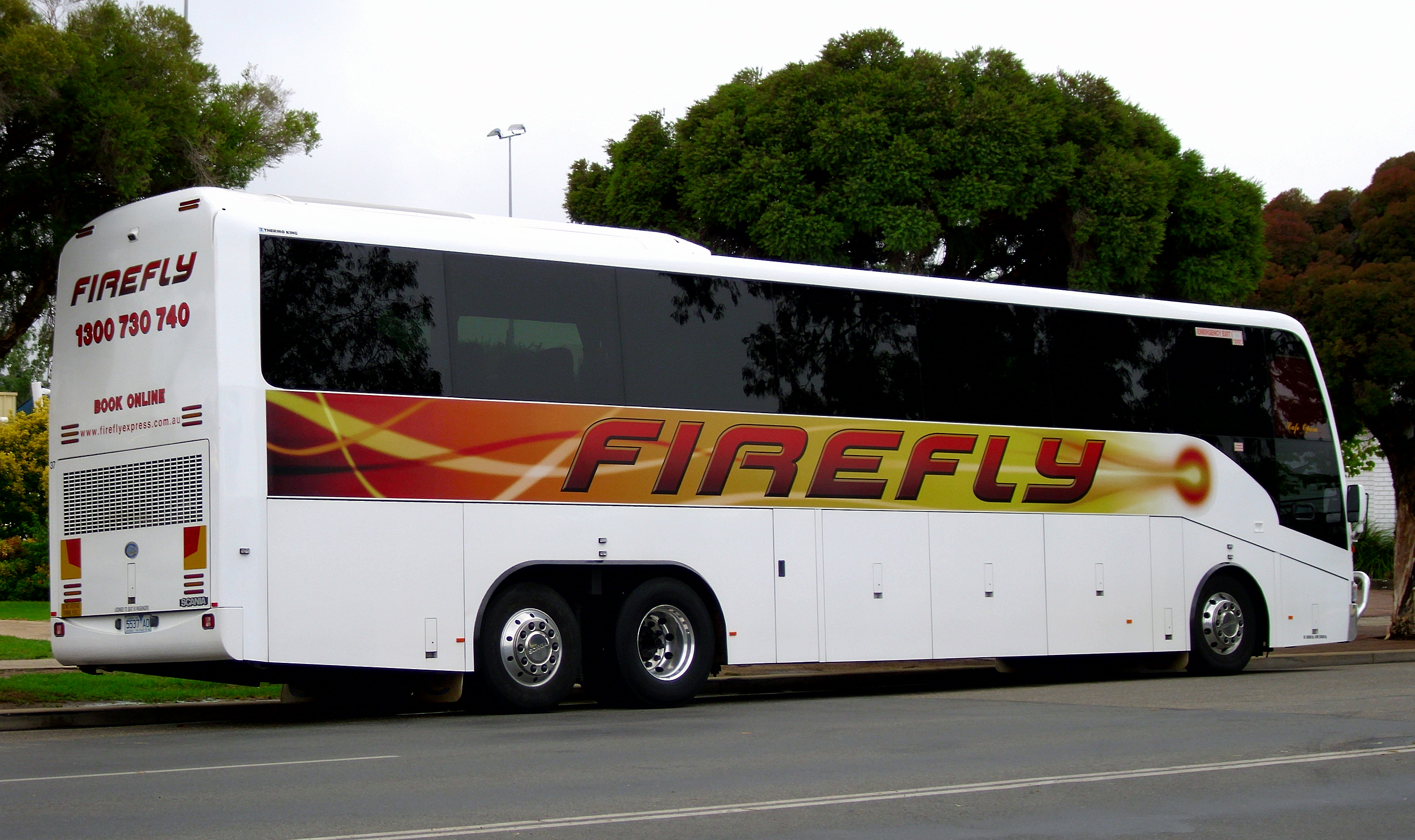 Coach Concepts bodied Scania K124EB coach owned and operated by Firefly Express.